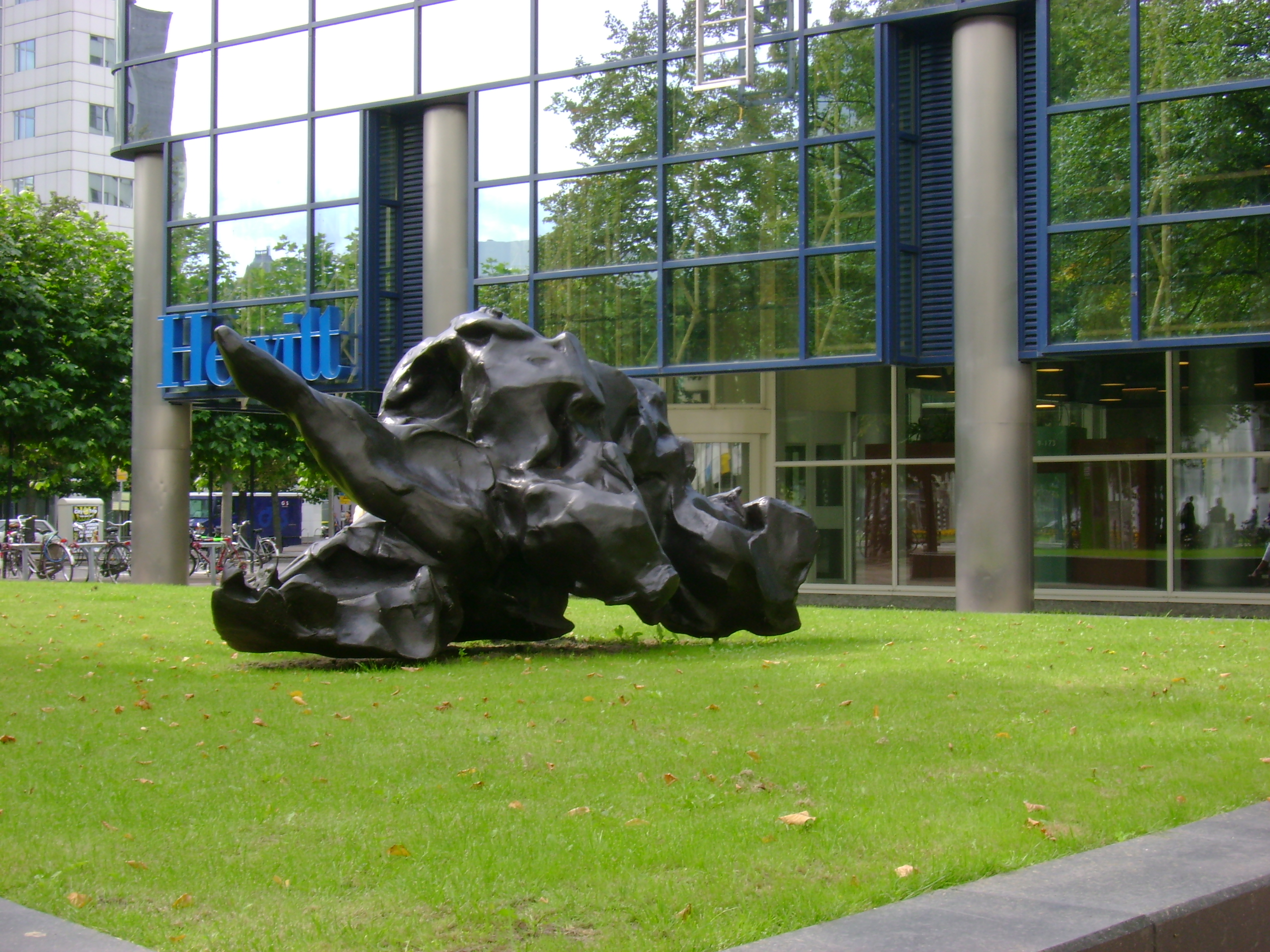 sculpture Reclining Figure by Willem de Kooning in Rotterdam/The Netherlands